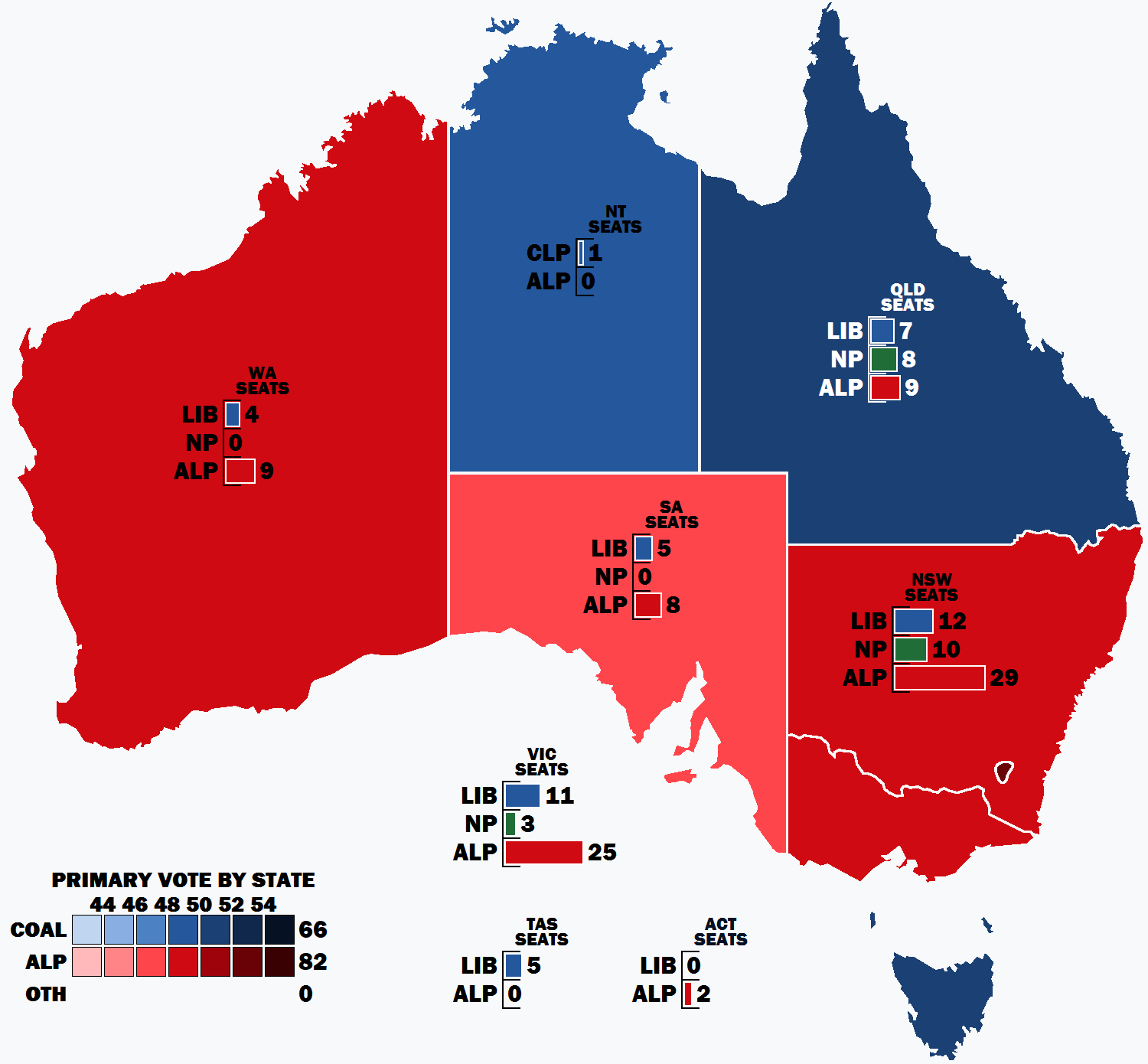 Result of the primary vote by state and territory in the 1984 Australian federal election.